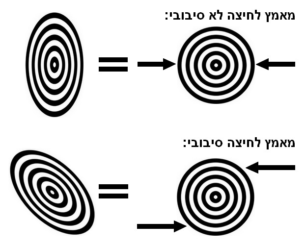 Compressive stress: Non-rotational and rotational